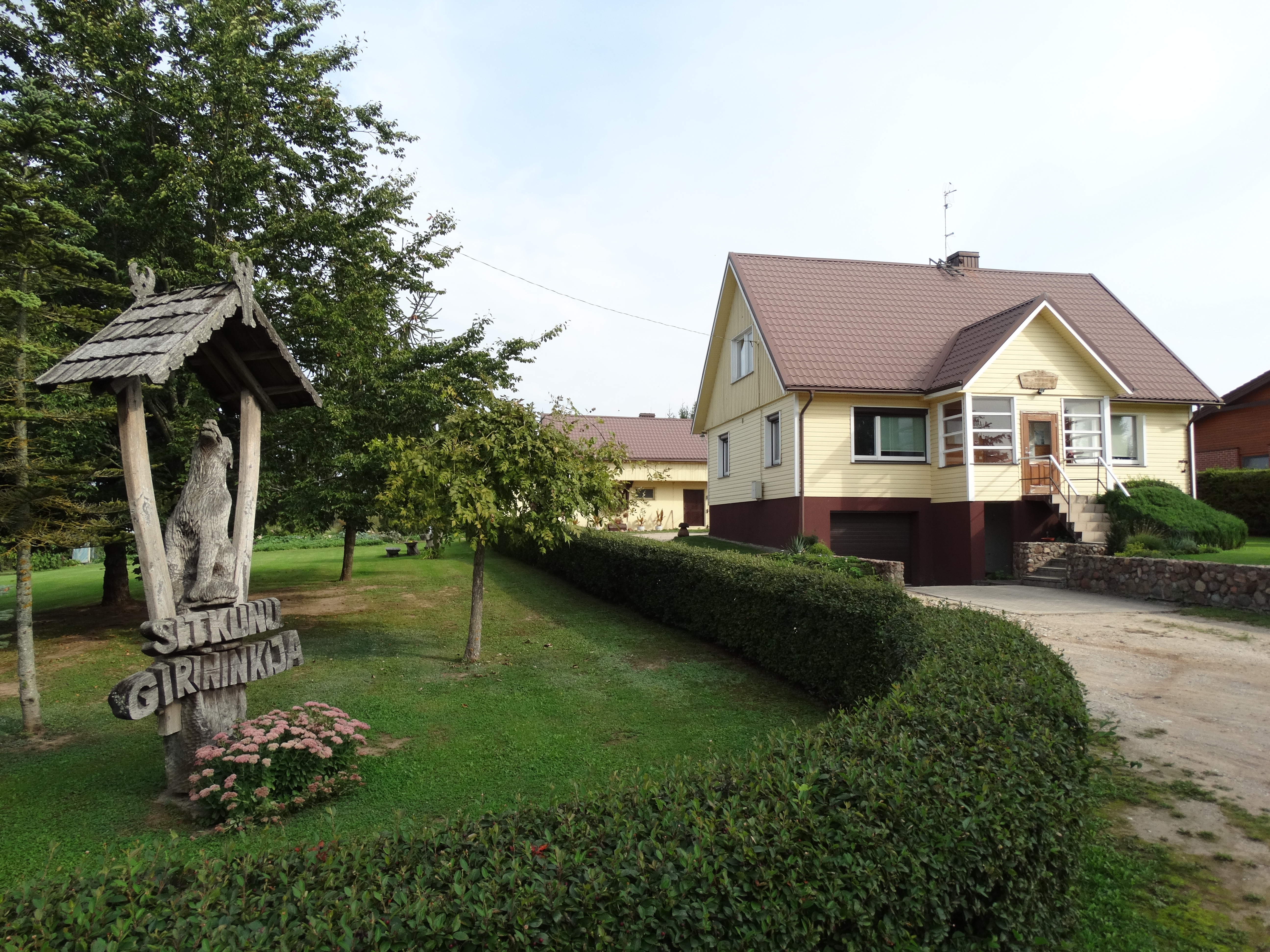 Sitkūnai forestry district. Babtai, Lithuania